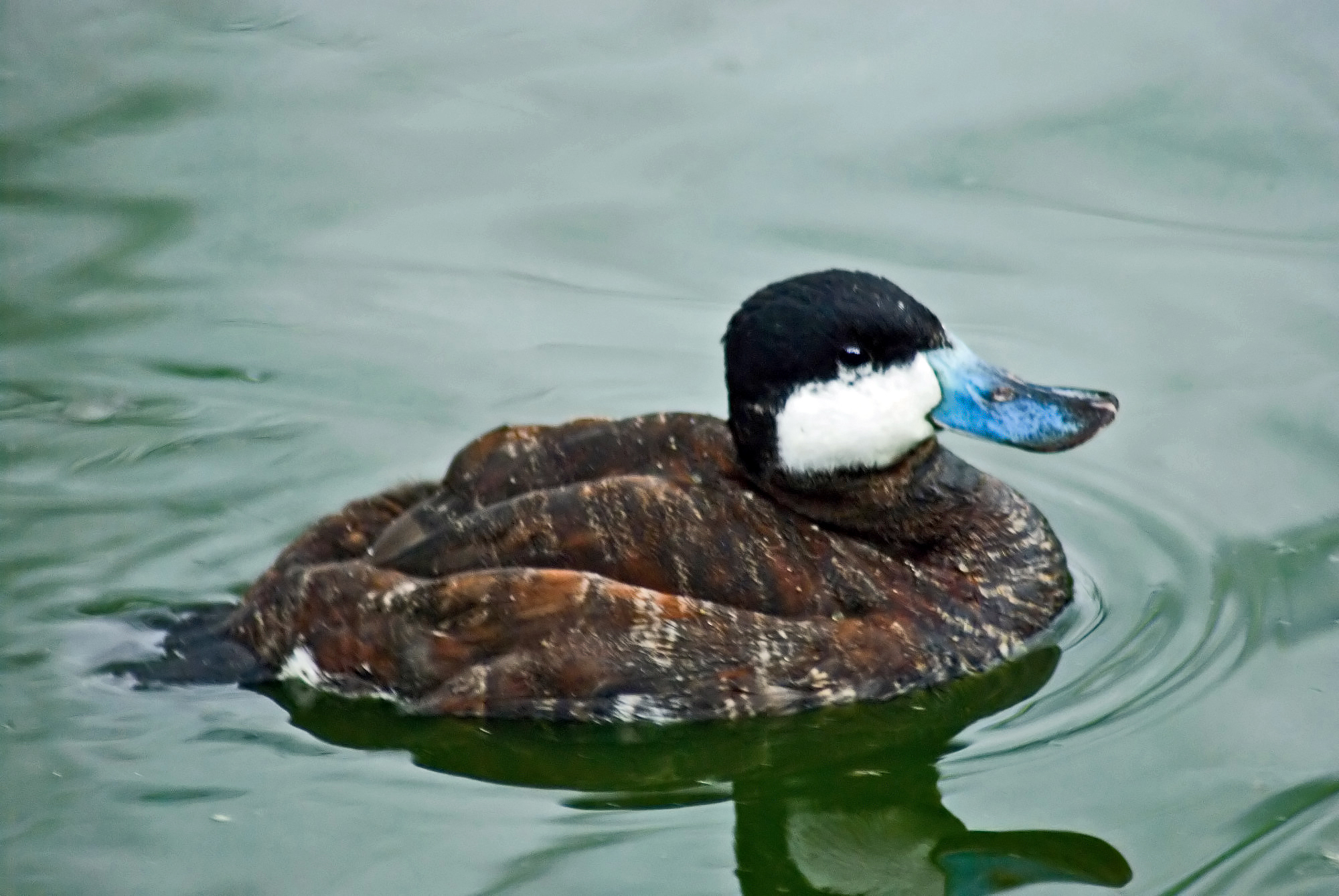 An adult male Ruddy Duck at Whipsnade Zoo in Bedfordshire, England.